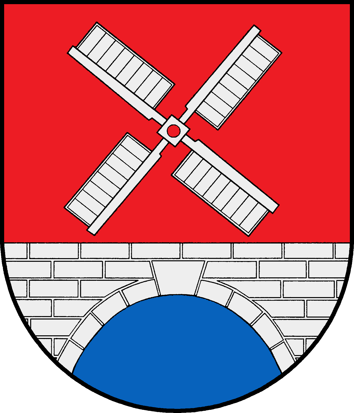 Coat of arms of the municipality Klein Barkau in Schleswig-Holstein, Germany.